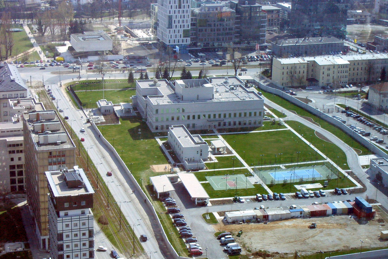 Sarajevo city view from the Avaz Tower cafe on floor 35 American Embassy next to bombed out Tito Barracks